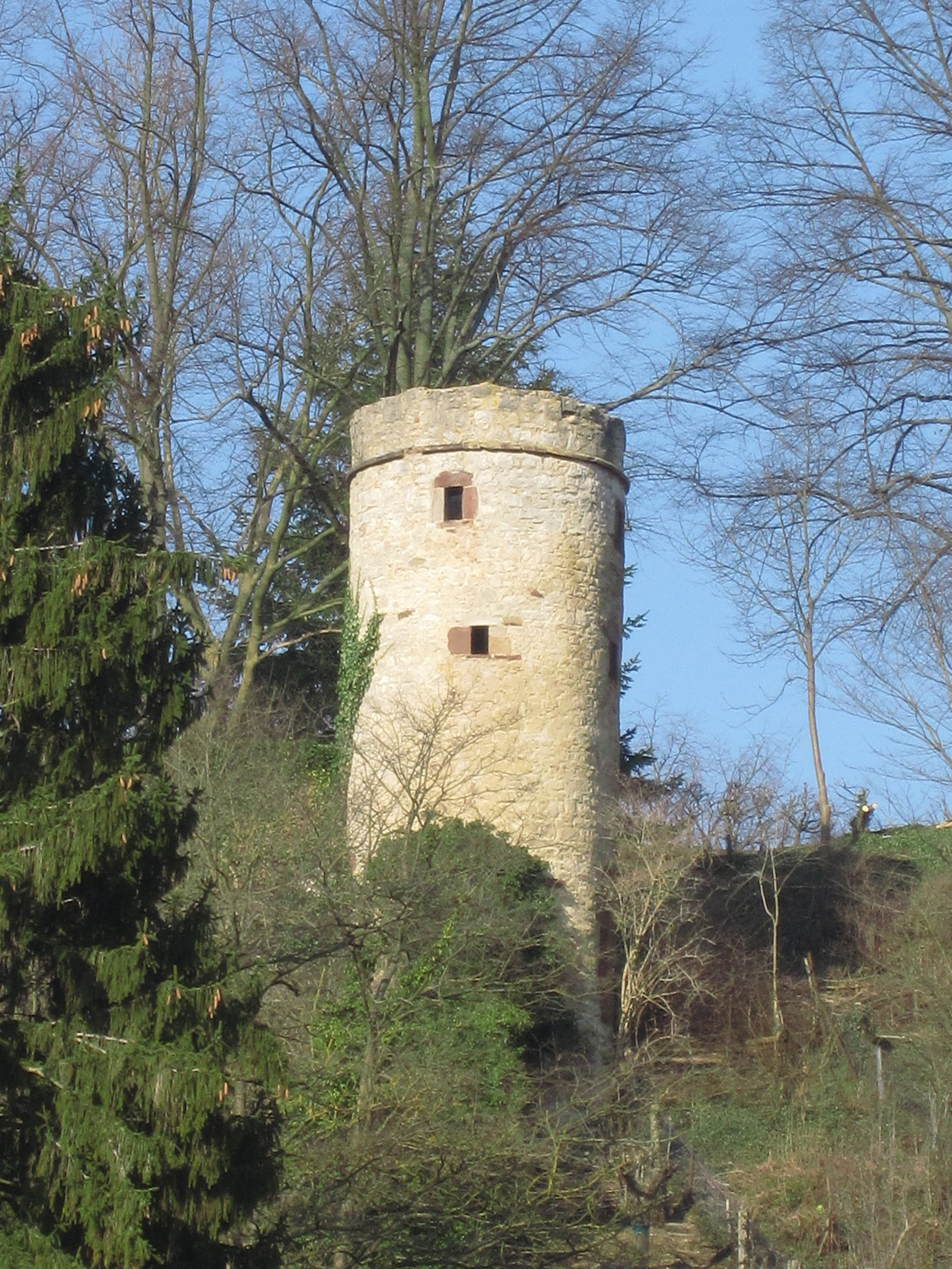 Chattenturm in Warburg.